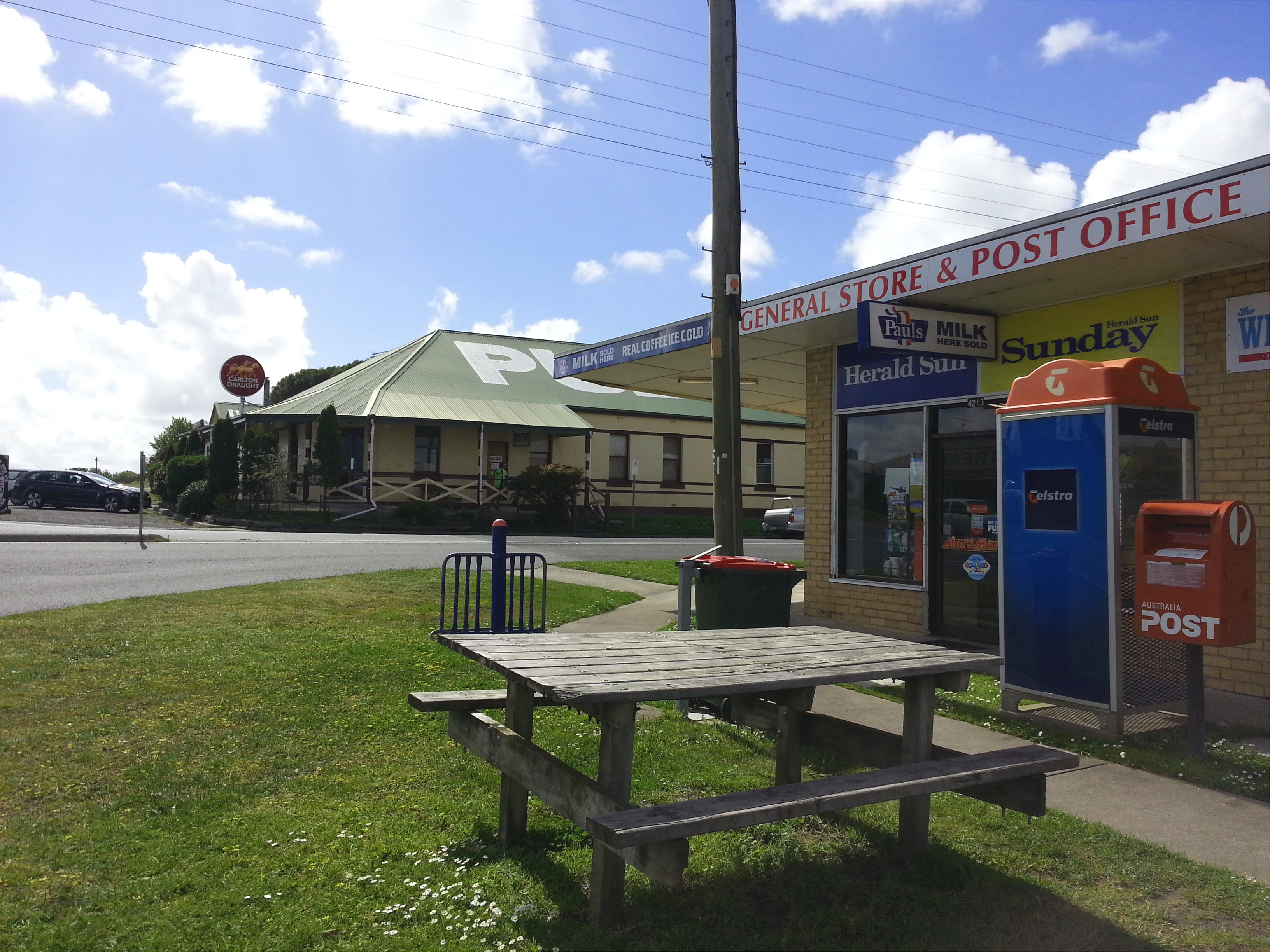 Dalyston shops, Dalyston, Victoria, Australia